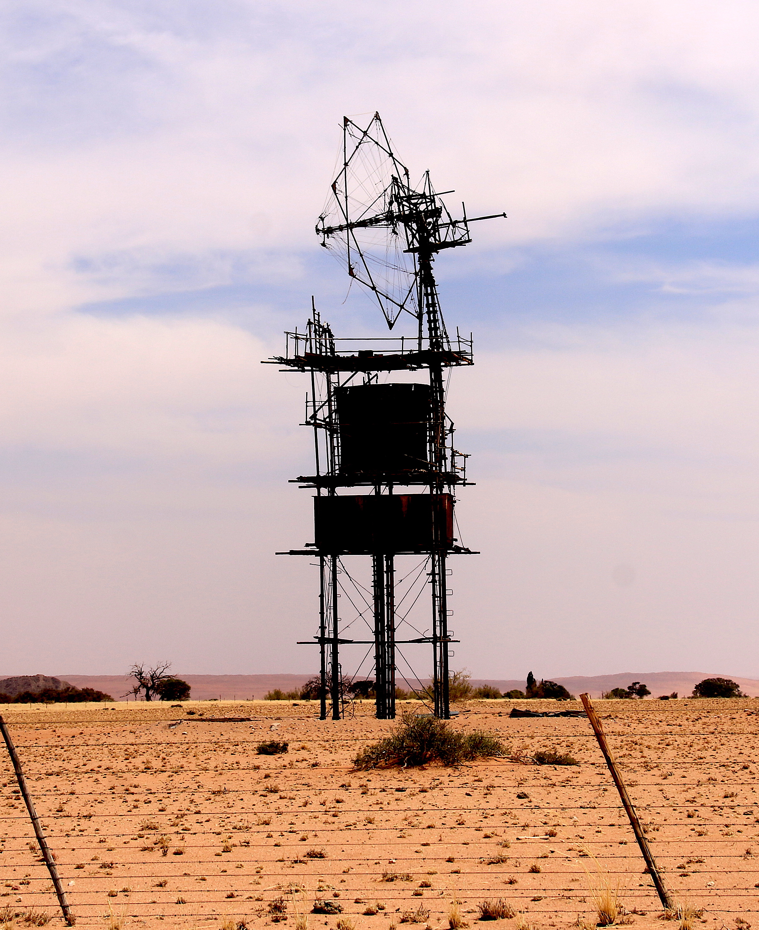 Windpump near Aus, Namibia